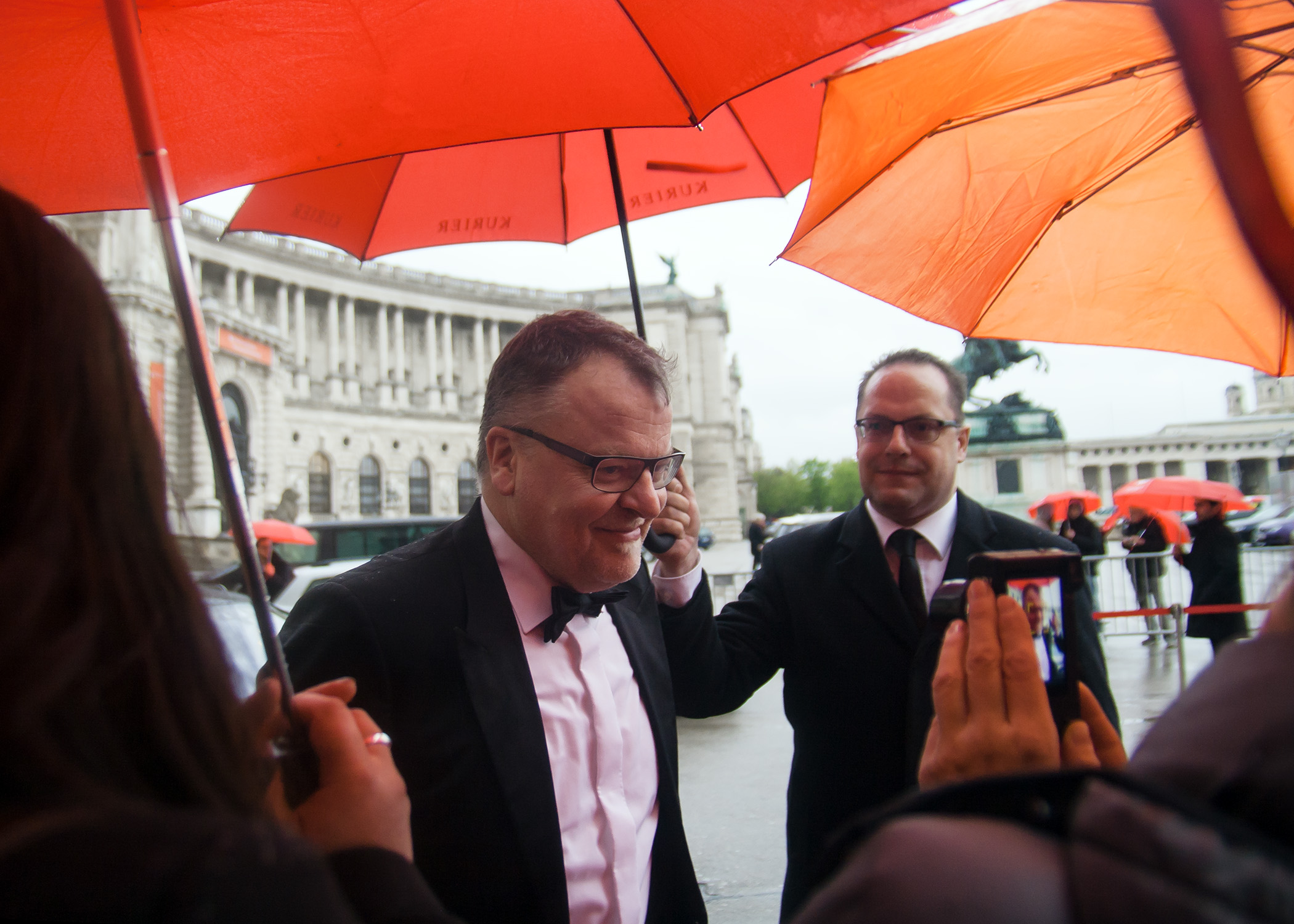 Stefan Ruzowitzky on the red carpet of the Romy TV awards 2017 at Hofburg Palace in Vienna, Austria.